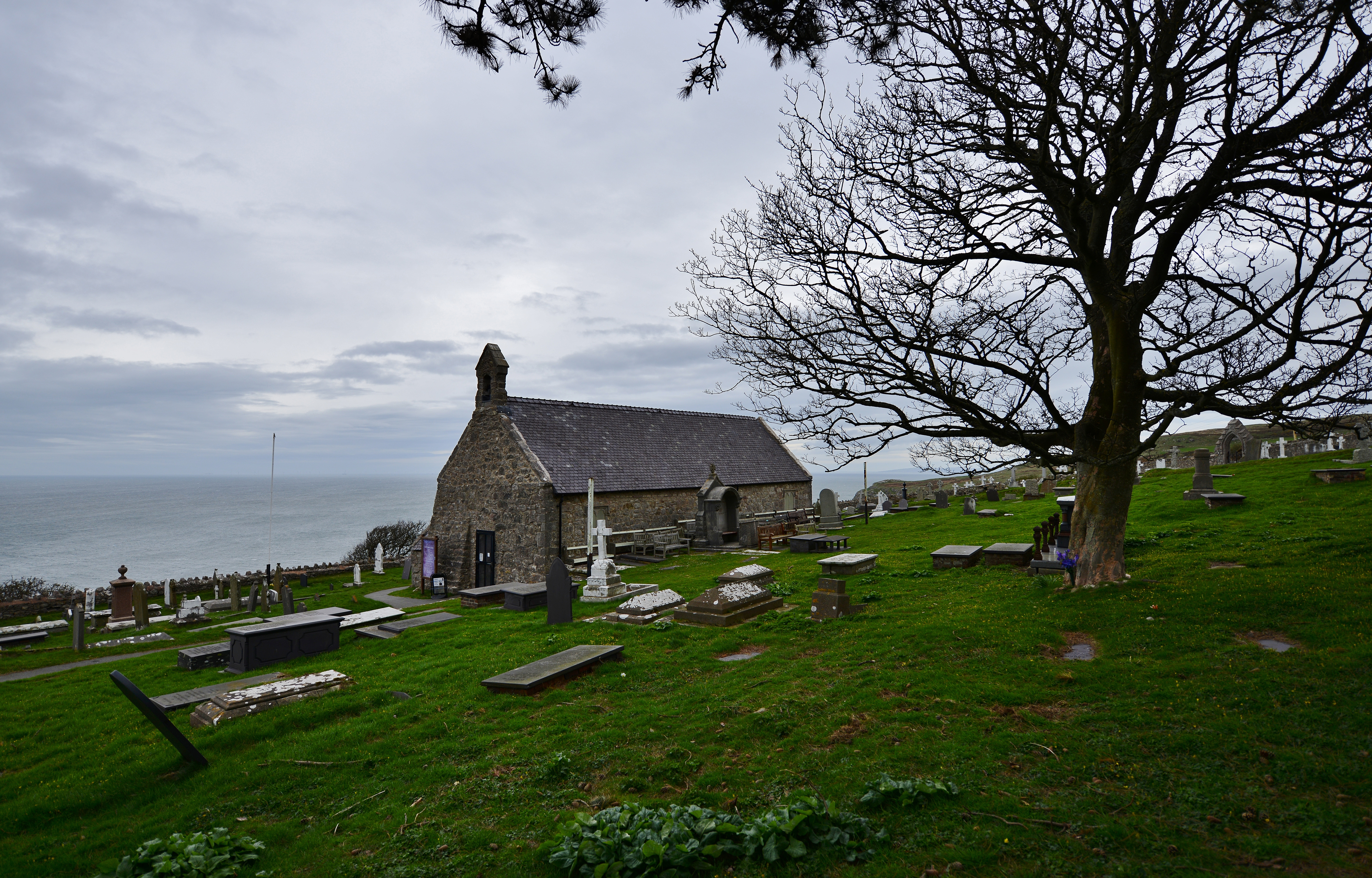 Church of St Tudno Wikidata has entry Q17744467 with data related to this building.